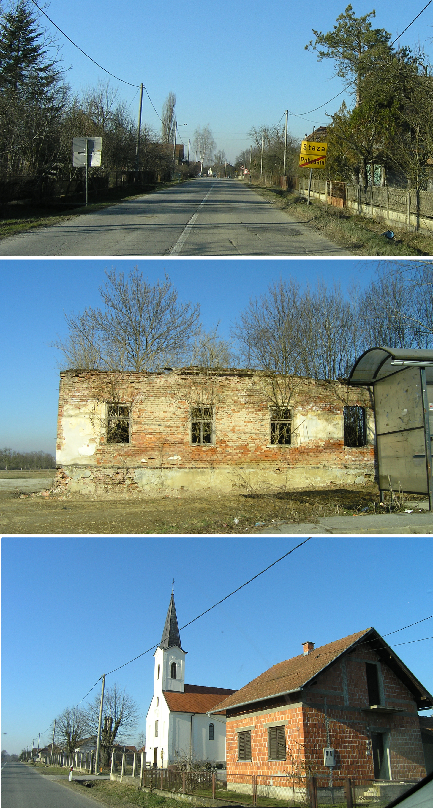 Village Staza, Sisak-moslovina county, Croatia. Destroyed houses, new-built catholic church.